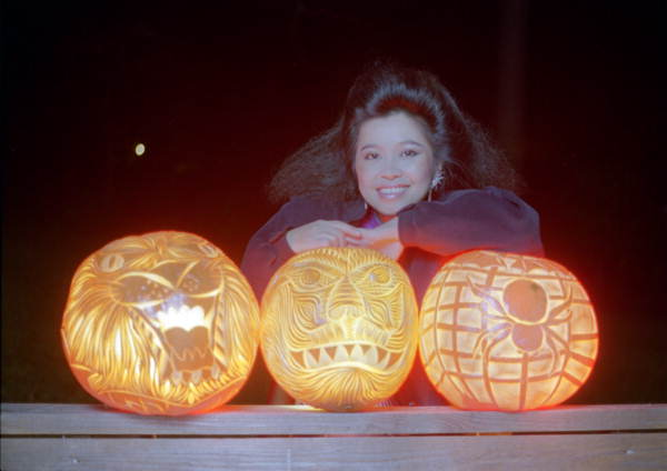 Local call number: pr20603 Personal Author: Nage, Frank. Title: Pam Maneeratana displays her carved pumpkins: Tallahassee, Florida Date: 1987. Physical descrip: 1 photoprint: col; 8 x 10 in. Series Title: Print collections. Accompanying note: "Local restaurateur Pam Maneeratana displays three intricately crafted pumpkins carved using a technique called Kae-Sa-Luk, a 700 year-old art carving method from Thailand." General Note: Kae-Sa-Luk is a 700 year-old craft taught to school girls while learning culinary skills. The usual motif was floral. Pam Maneeratana uses a bird's beak knife, which was specially ordered from Thailand. Ms. Maneeratana's mother was the cook for Bahn Thai, a family-owned restaurant in Tallahassee. Repository: State Library and Archives of Florida , 500 S. Bronough St., Tallahassee, FL 32399-0250 USA. Contact: 850.245.6700. Persistent URL